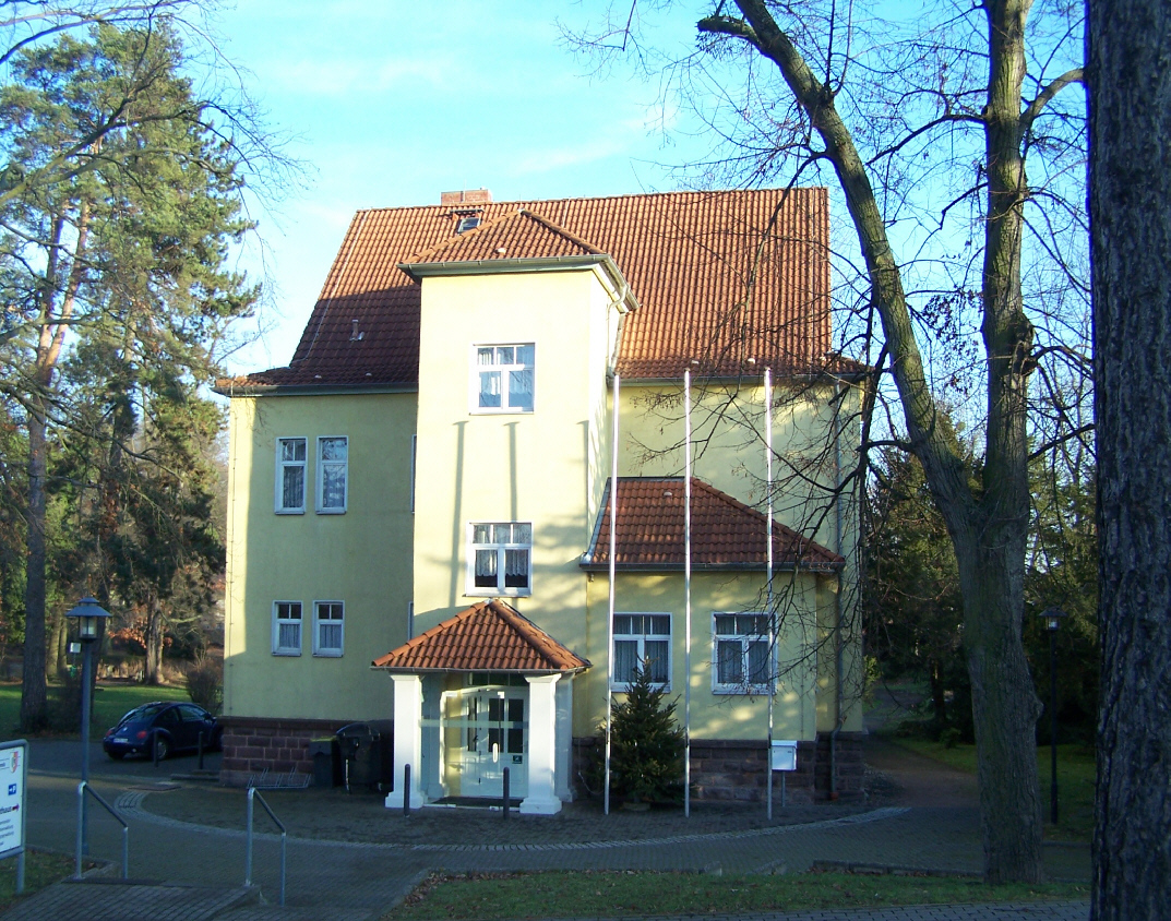 The village administration building in Wutha-Farnroda.